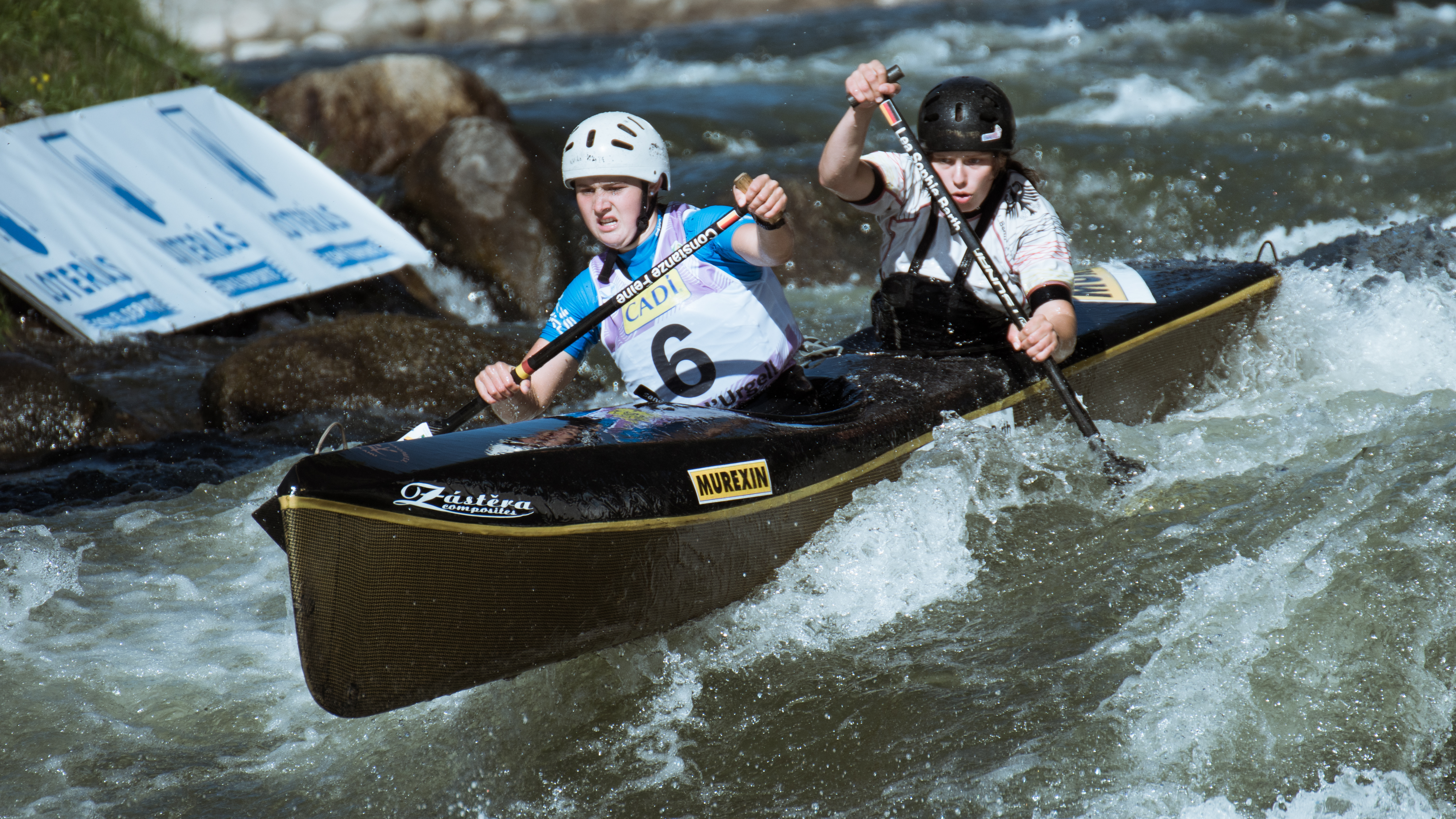 Lea-Sophie Barth and Constanze Feine during the 2019 Canoe Wildwater World Championships in La Seu d'Urgell, Spain.